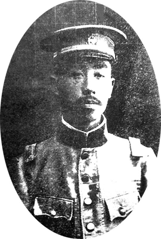 Zhang Zhenwu (1877－1912)